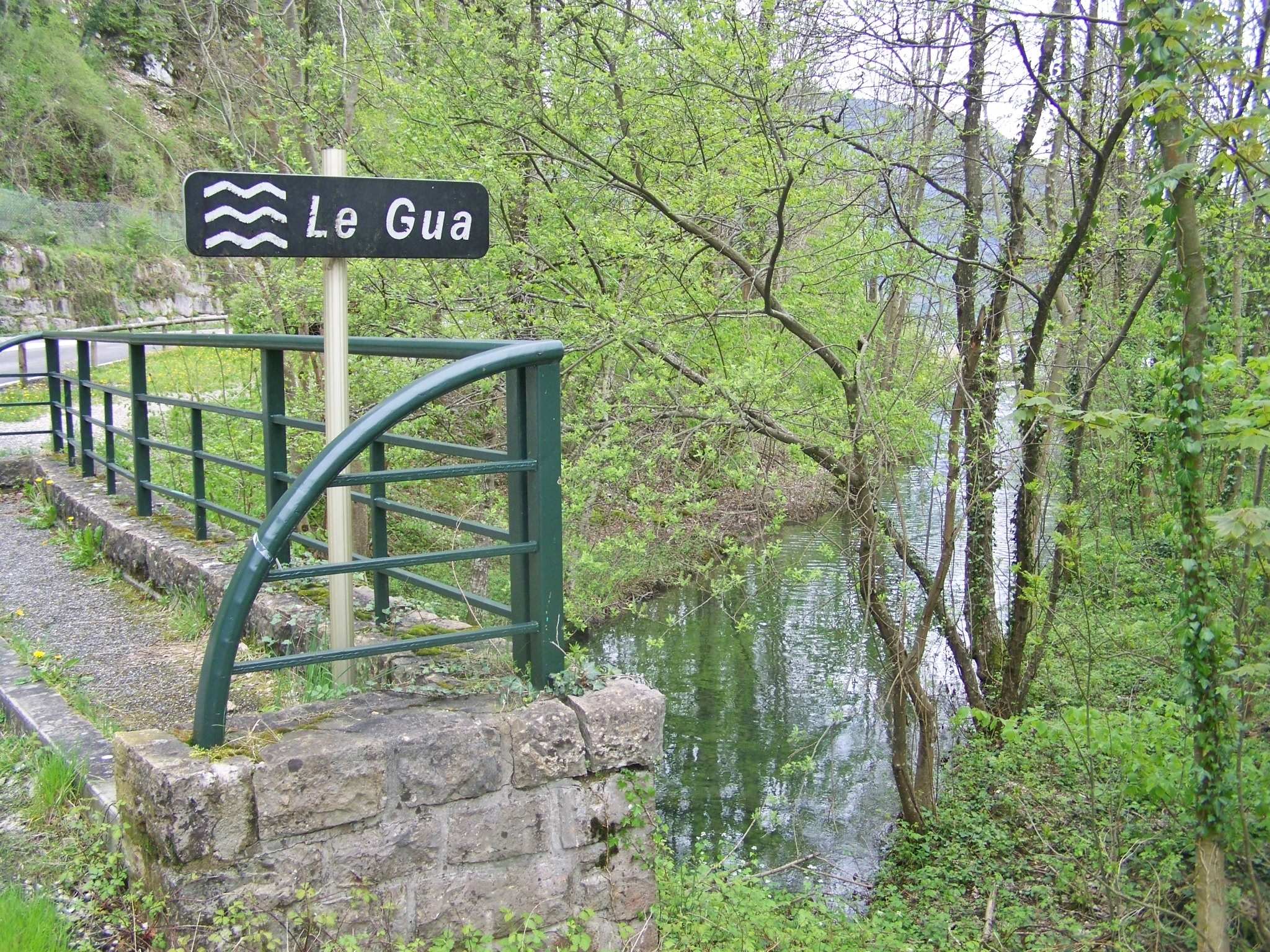 Sign of the Gua stream a few meters prior to flow in the lac d'Aiguebelette lake, in Savoie, France.